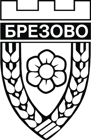 Emblem of Brezovo, Bulgaria